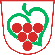 coa - Semič